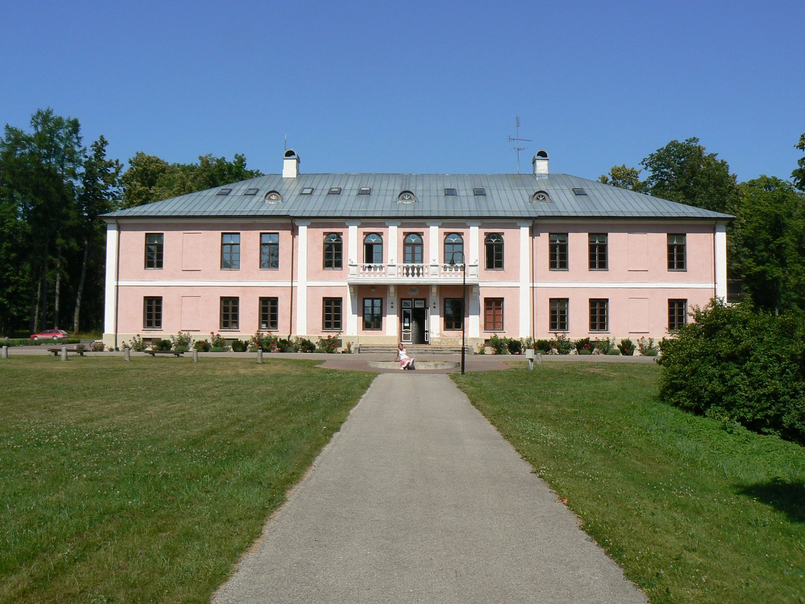 Tõstamaa manor in Estonia